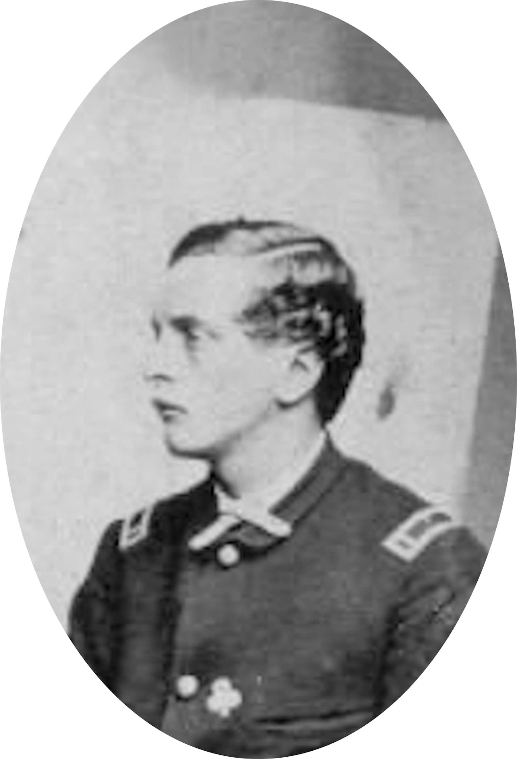 MoH Winner William B Hincks 1865